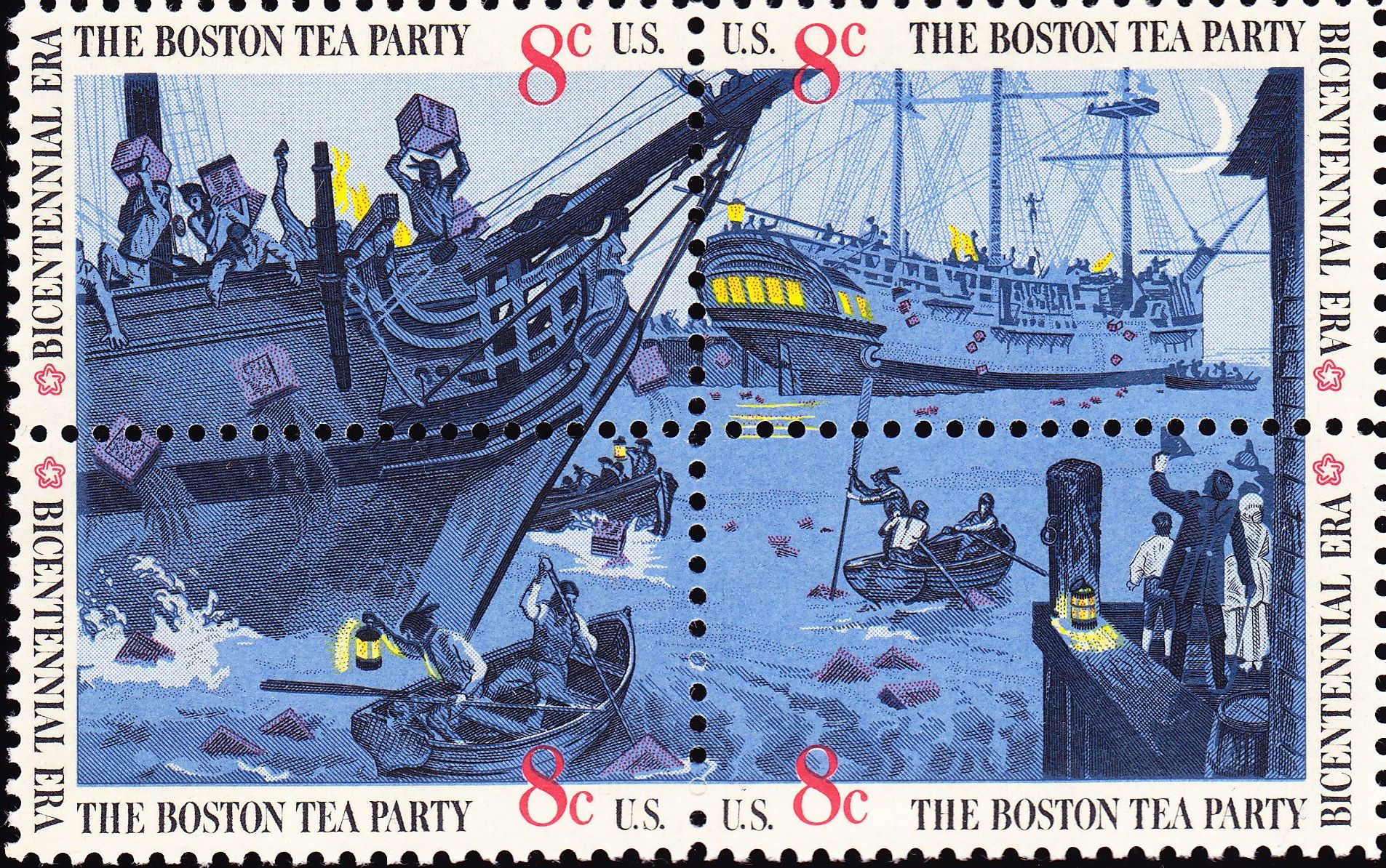 US Postage stamps, Boston Tea Party, issue of 1973, block of four, 8c